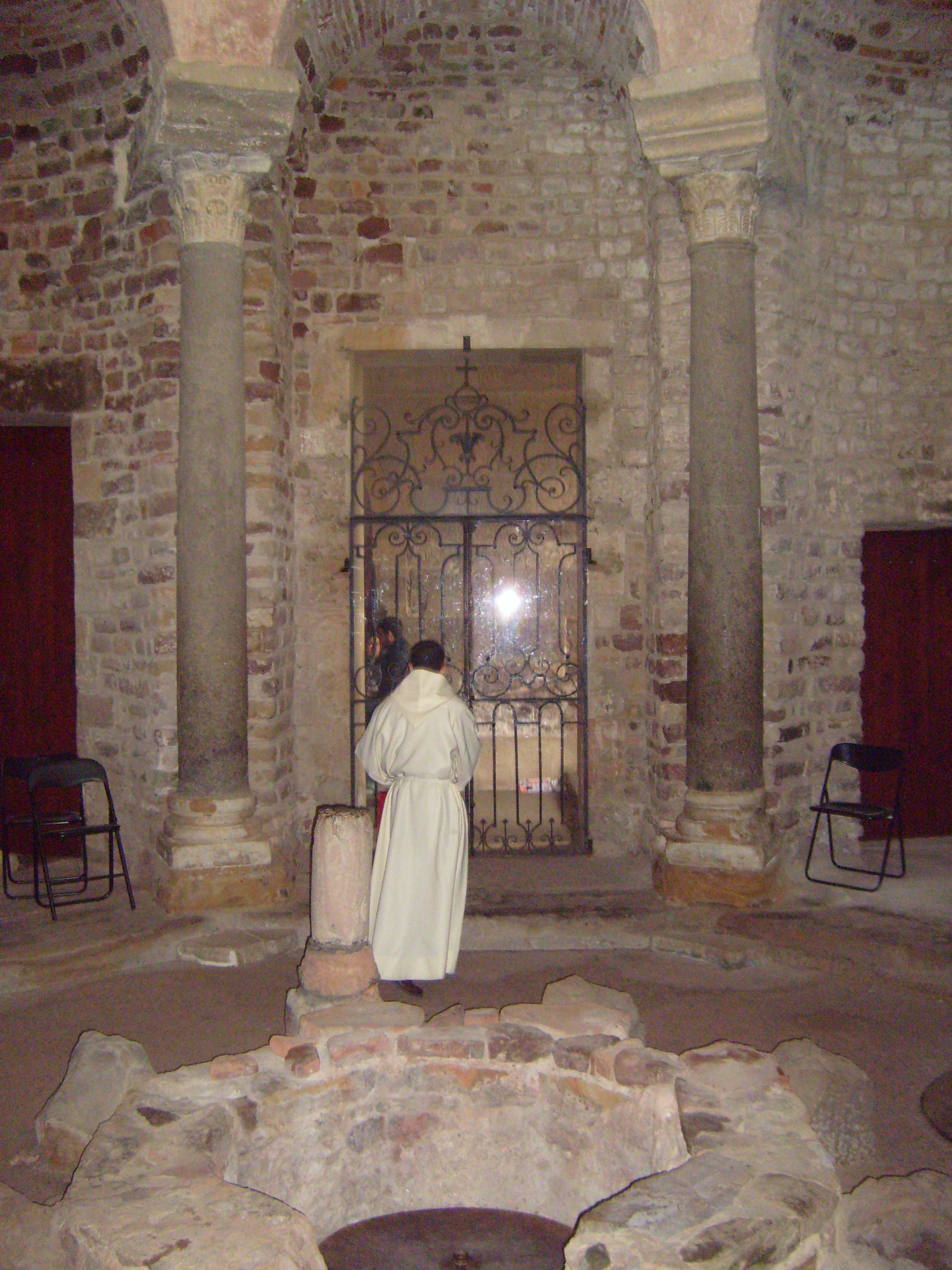 Baptistery of Frejus Cathedral, France (5th century).